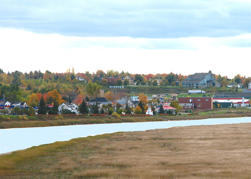 I John De Boer took this picture from the new bridge in the fall of 2005.